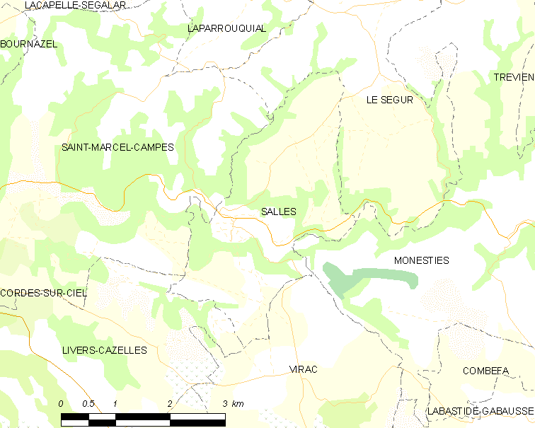 Map of French municipality Salles